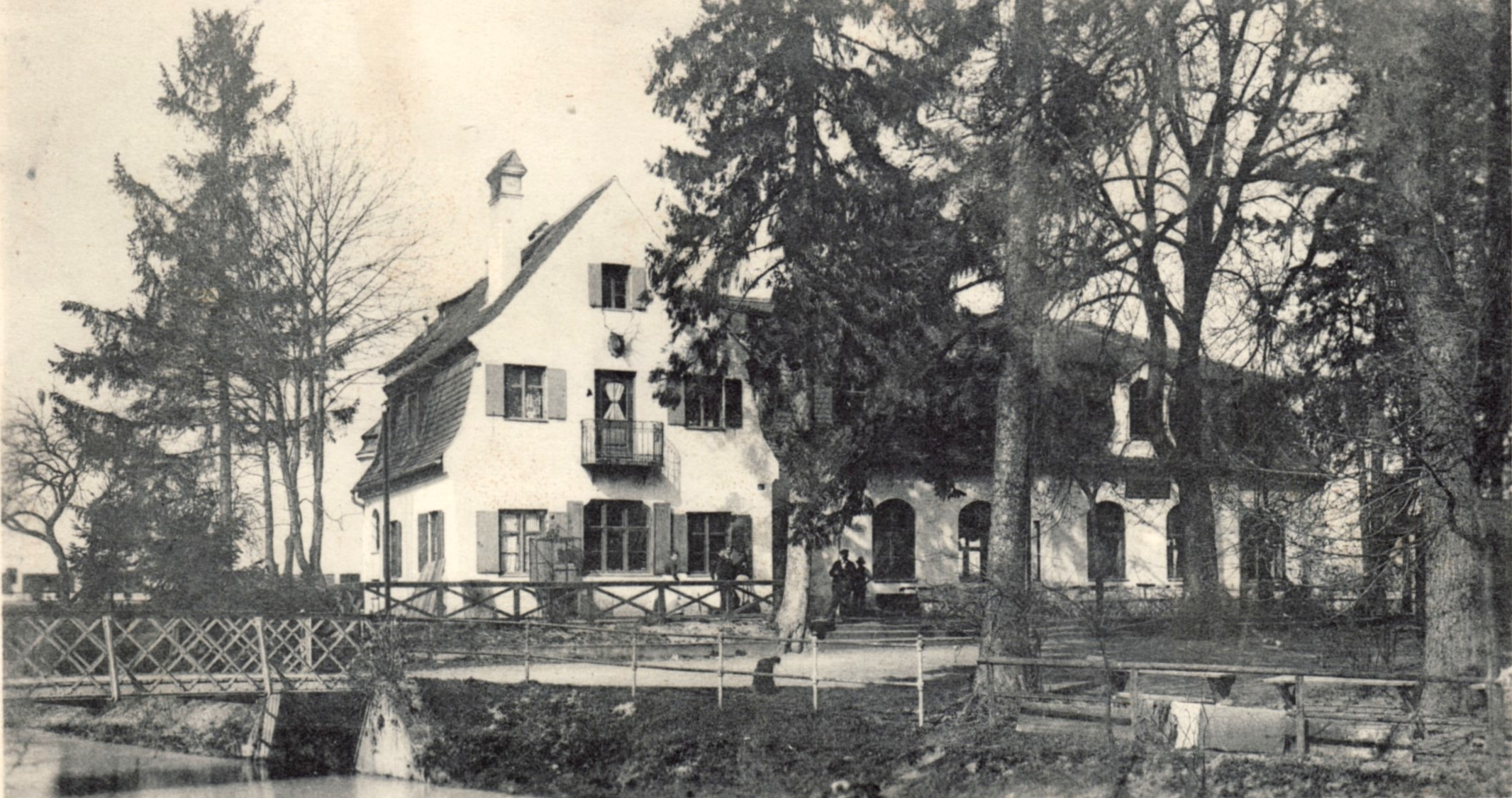 Spickel restaurant from across canal